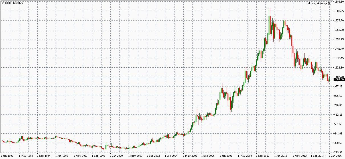 Gold price, XAU/USD(1992-2015)